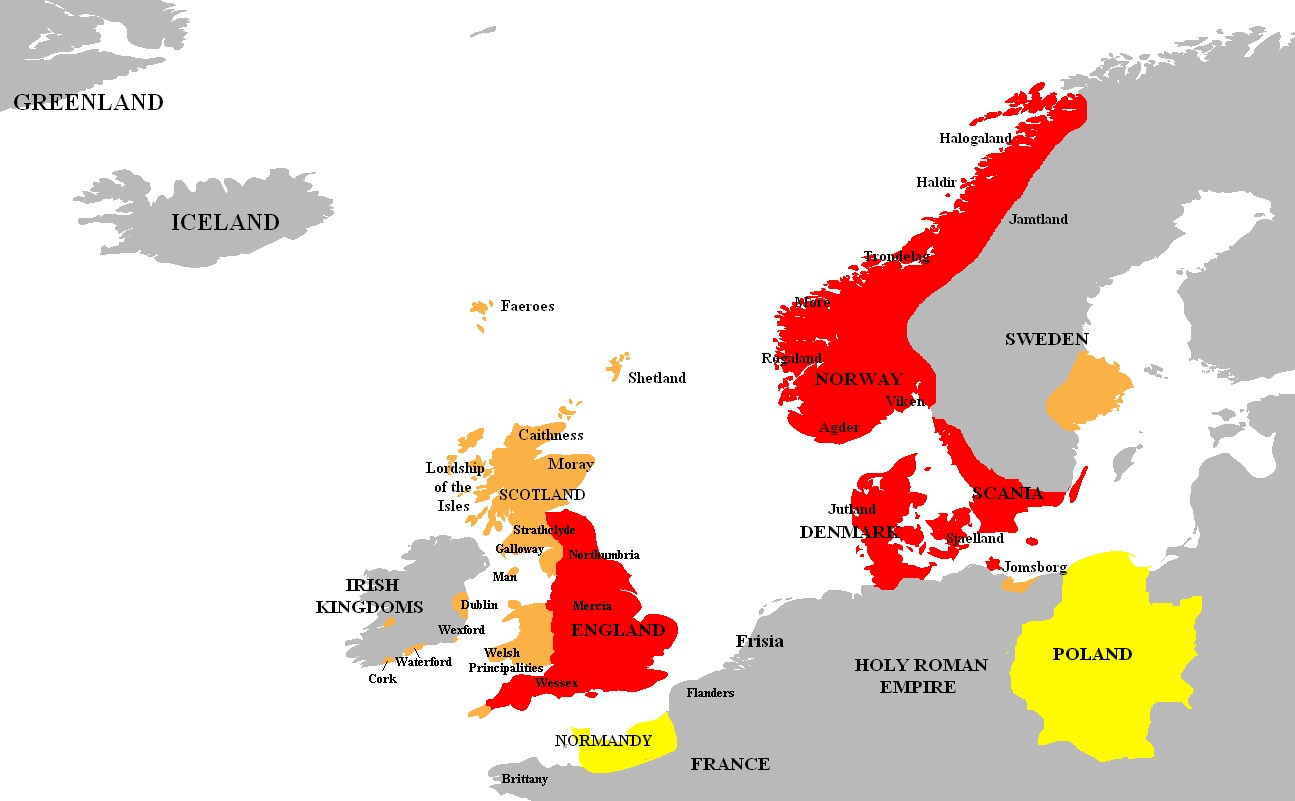 Cnut the Great's domains, c. 1028, in red. Vassals are denoted in orange, with other allied states in yellow.